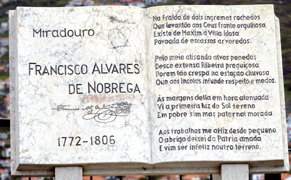 Photo of Miradouro Francisco Alvares de Nobrega.